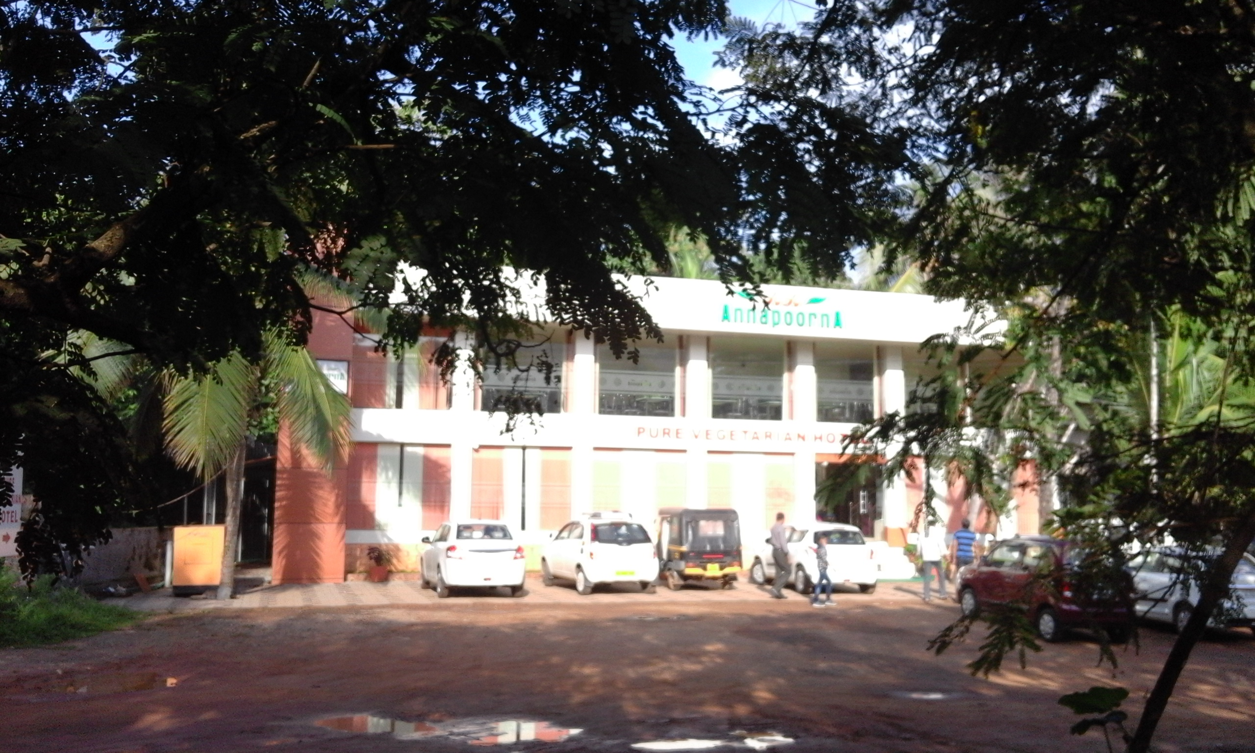 Annapoorna building at Azhinjilam, Ramanattukara